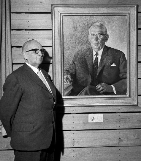 Photograph of the Finnish business executive and goldsmith Lauri Viljanen (1888–1978) with a portrait of him.